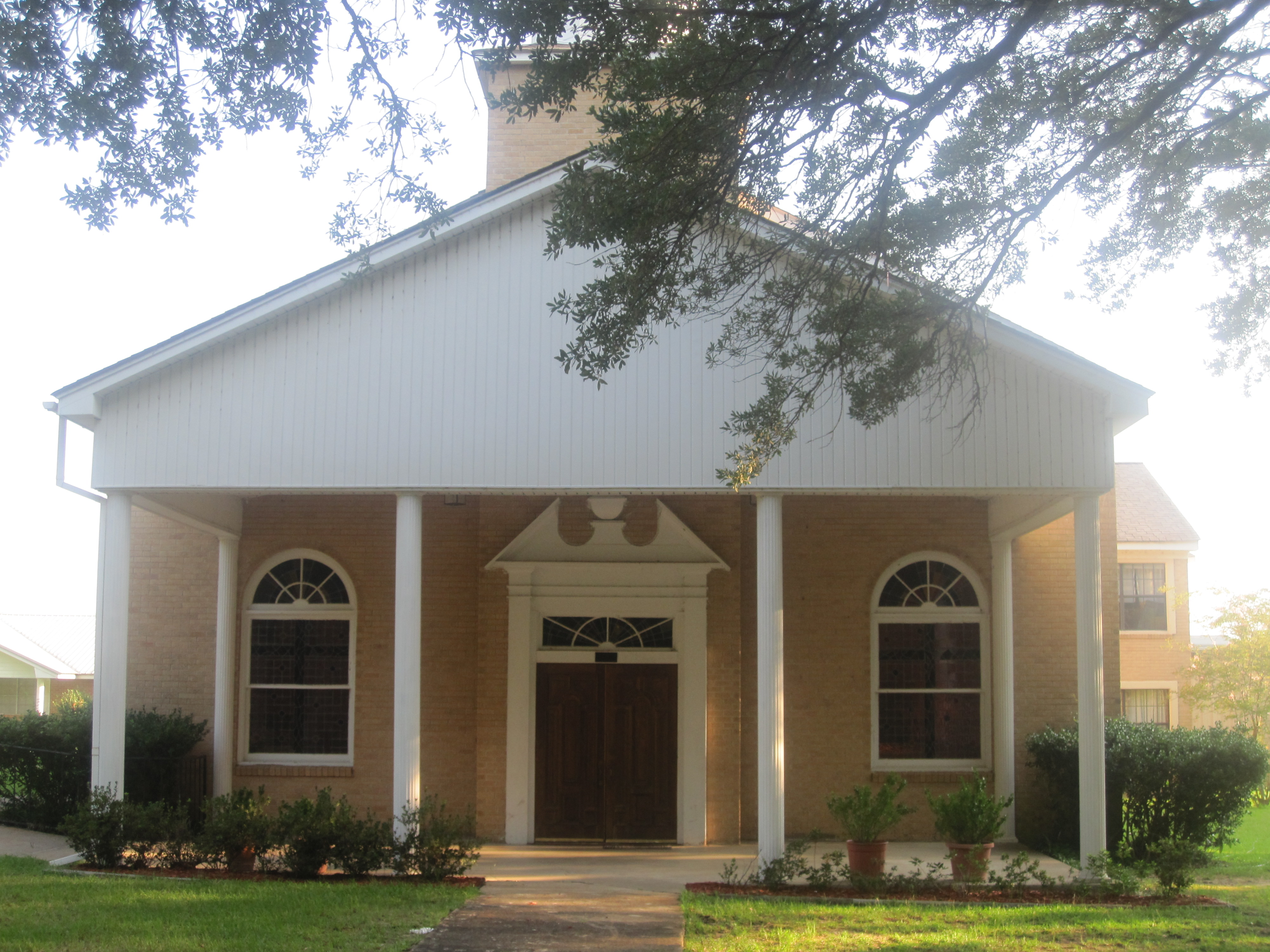 First Baptist Church of Montgomery, LA